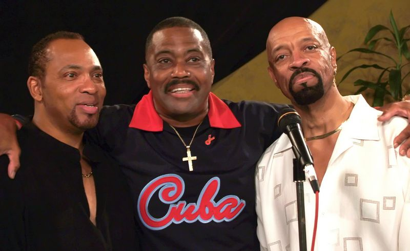 The group "The Main Ingredient" taken in San Diego, California.